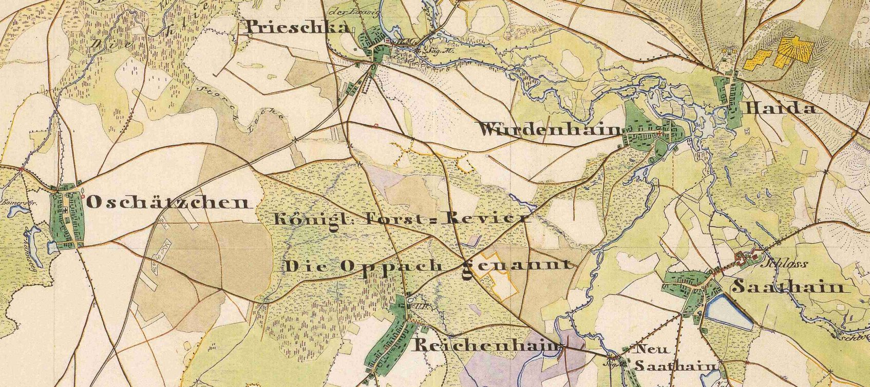 Würdenhain, Lkr. Elbe-Elster, Brandenburg, Germany, detail from the Urmesstischblatt Sheet 4546 Gröditz, drawn in 1847